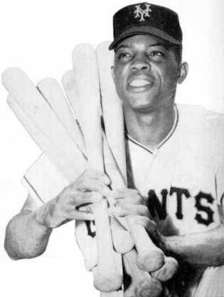 New York Giants centerfielder and Hall of Famer Willie Mays in a 1954 issue of Baseball Digest.